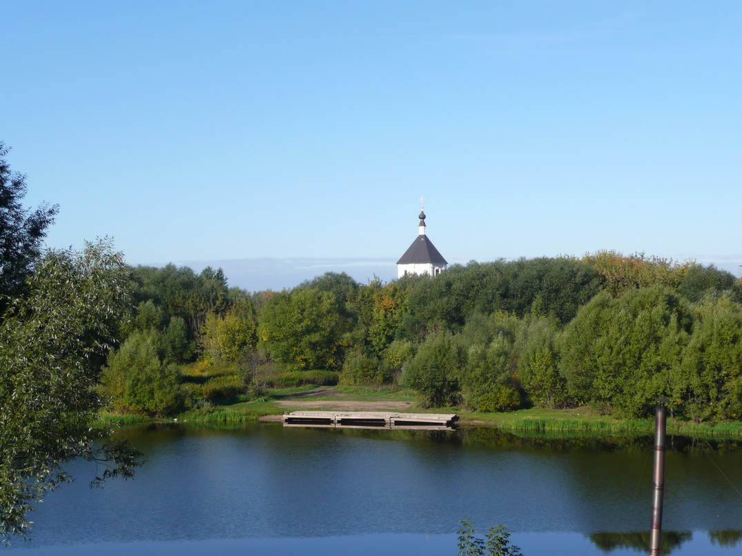 View towards Pokrovskaya Church across the Tmaka River